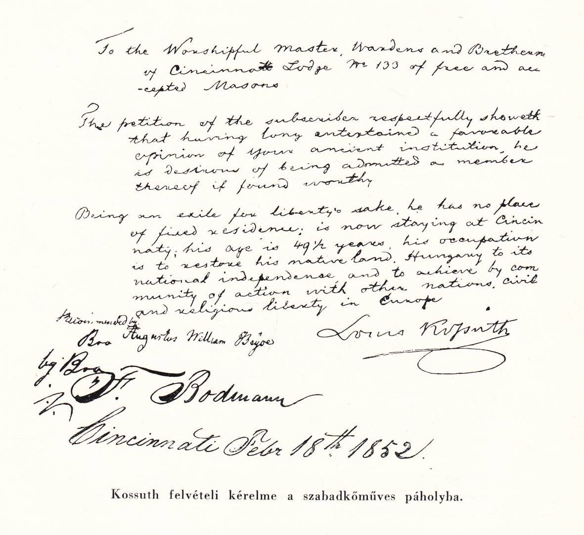 Louis Kossuth's handwritten application for admission to the Cincinnati 133 Masonic Lodge.